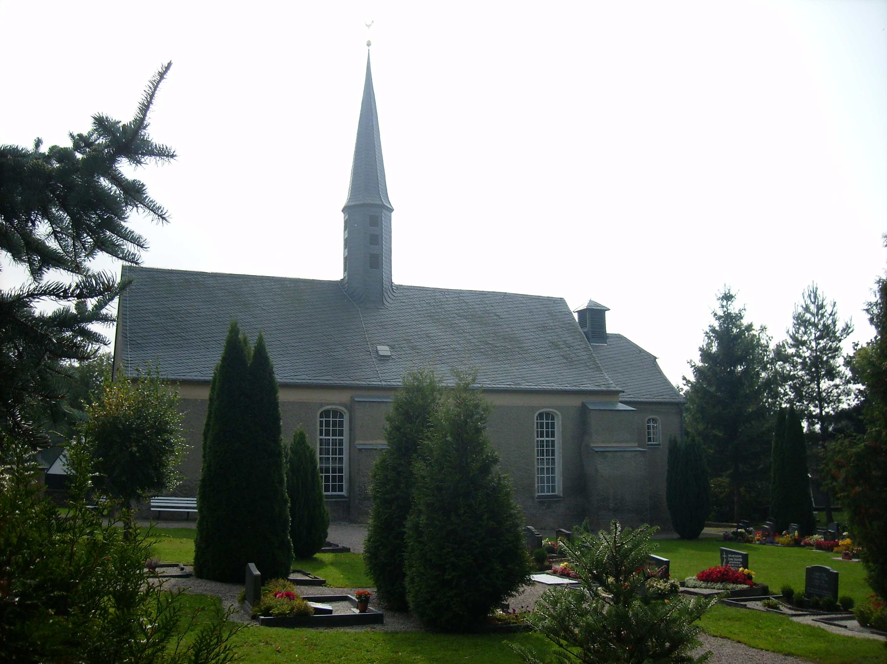 Church of the village of Reinholdshain (Glauchau, Zwickau district, Saxony)